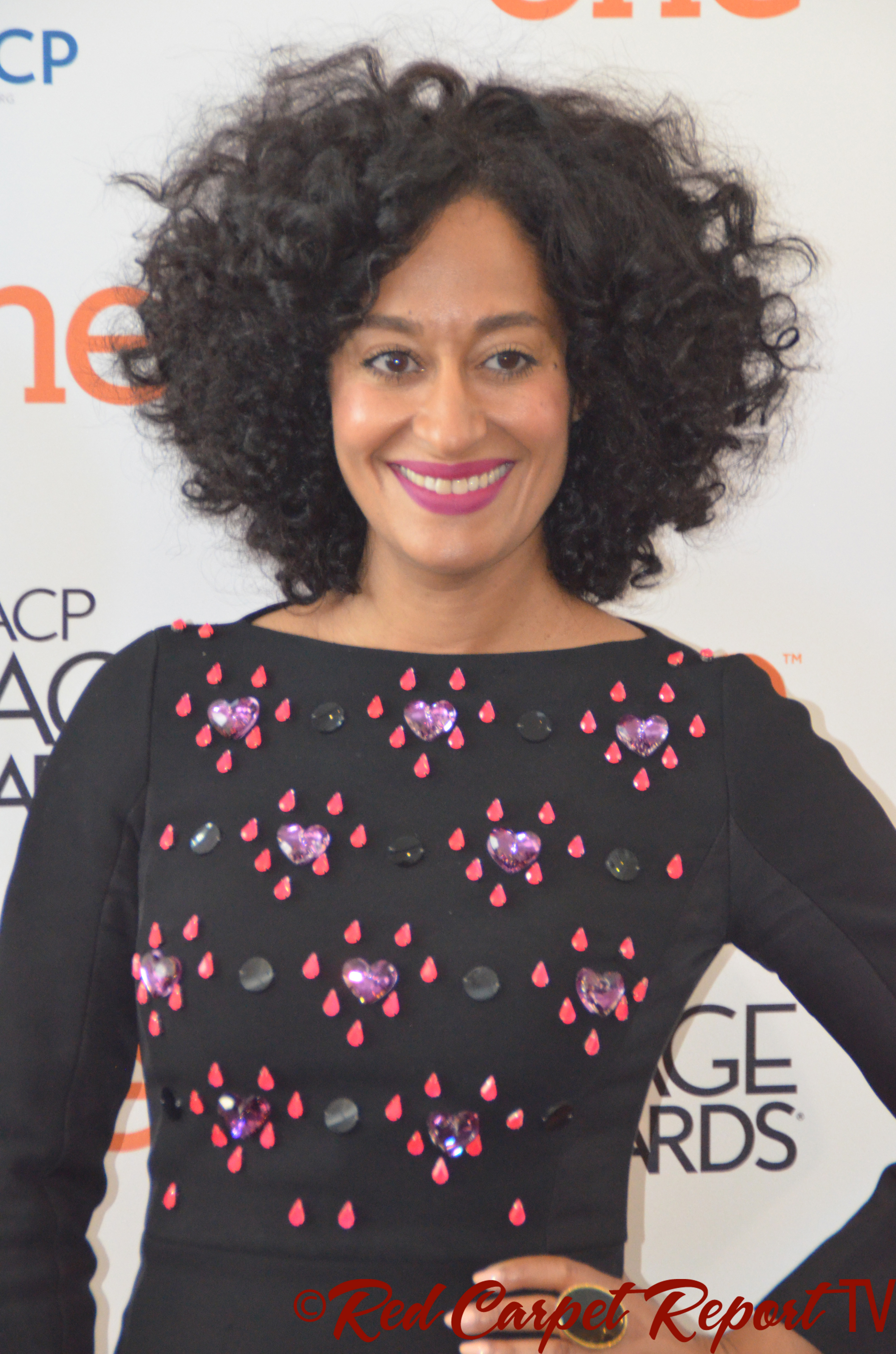 Tracee Ellis Ross at the 46th NAACP Image Awards